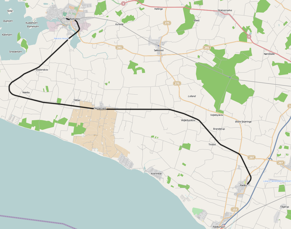 Railway line Nakskov - Rødby